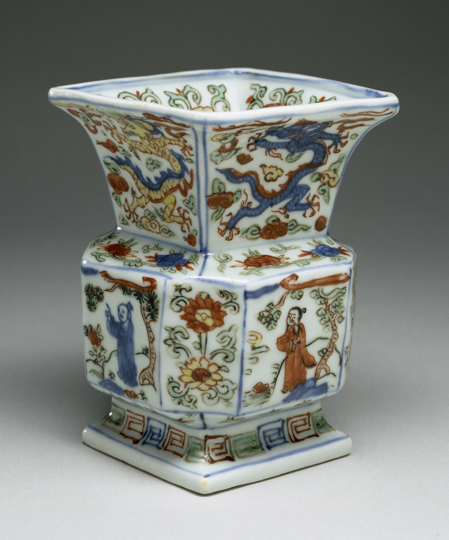 This small vase, in the general shape of an ancient bronze vessel, bears panels depicting a sage alone in the landscape- a theme of which one could never tire.